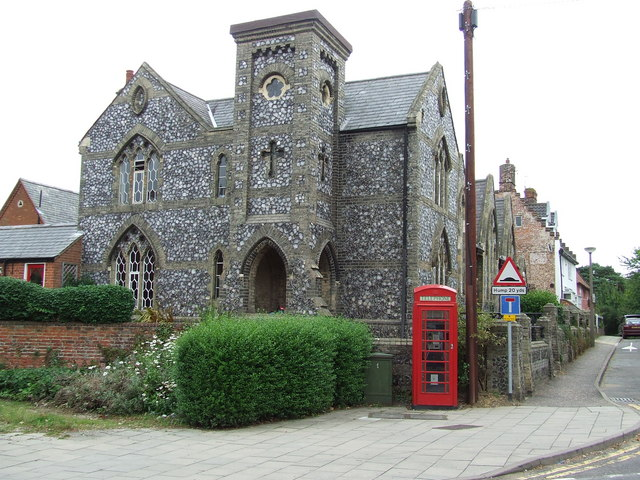 Loddon library. The local library Loddon Norfolk. The library used to be the school for the village with the now car park being the local playground. The school closed with the building of the new secondary modern schools down Kittens lane. For detail of the window see 919264